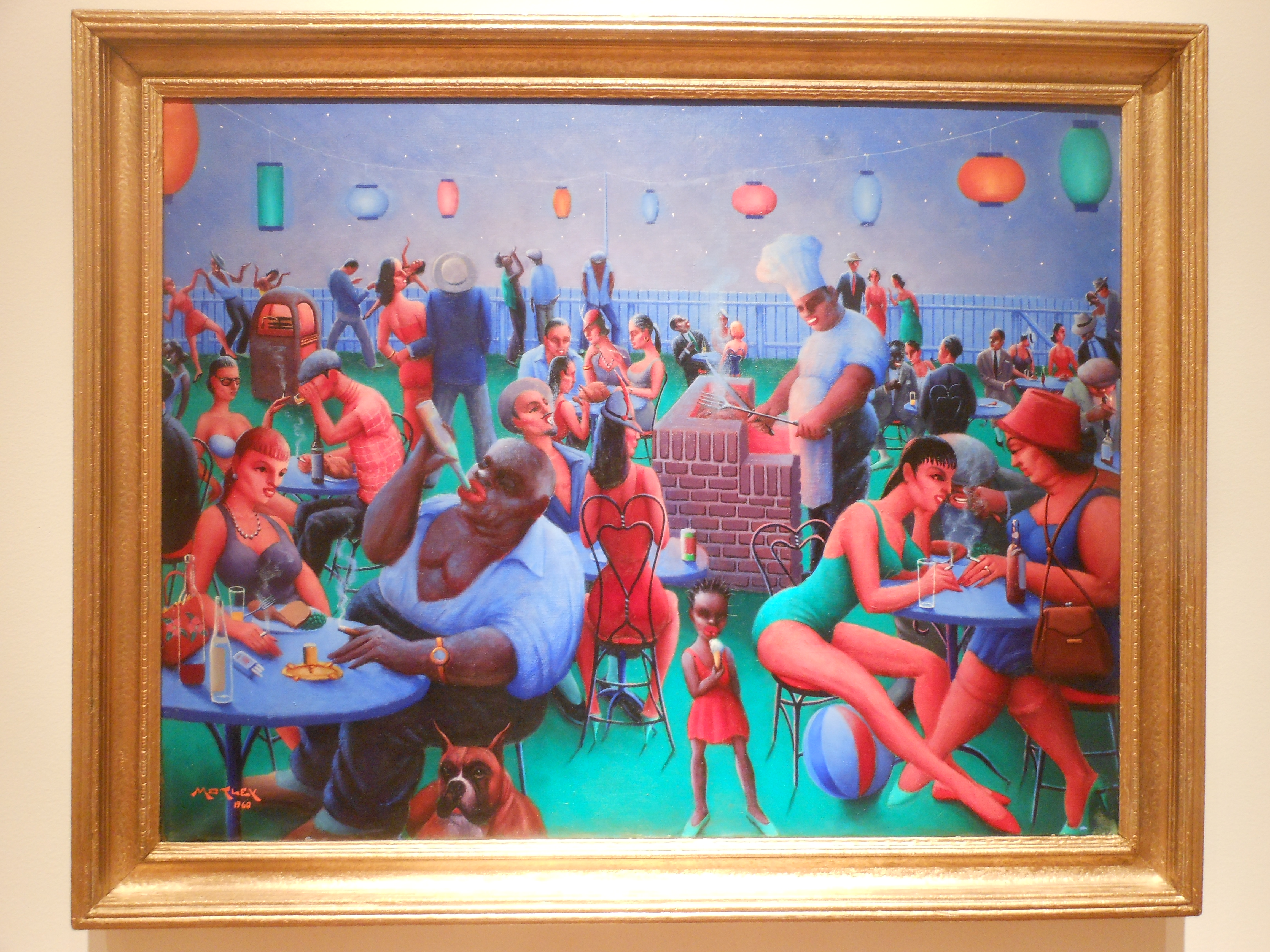 A painting by American artist Archibald Motley